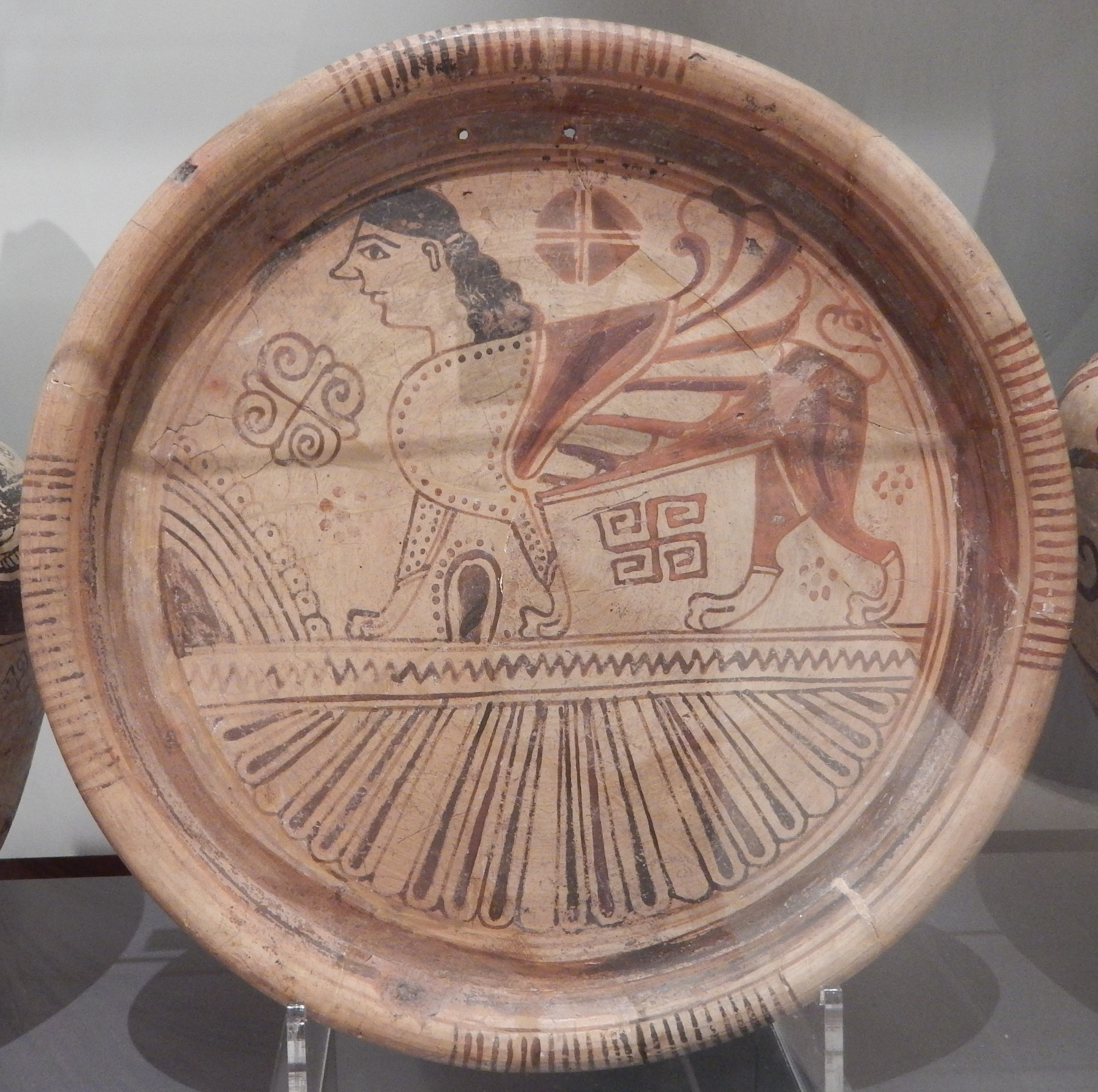 East Greek plate in the 'Wild Goat' style, showing a sphinx with geometric and floral motifs above a zone of petals. From Siana, Rhodes, 600-570 BC. AN1885.631.